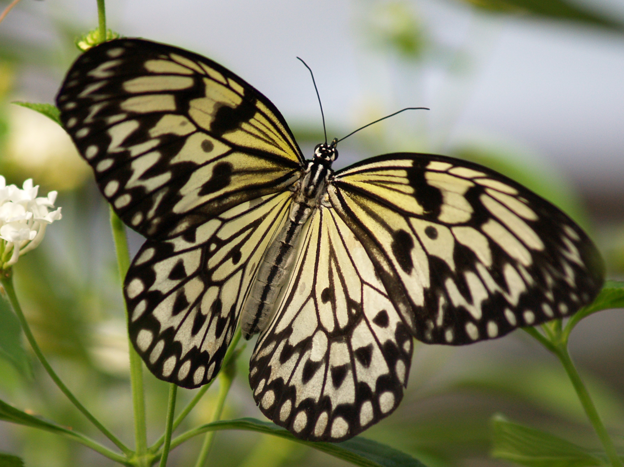 Butterfly: Idea Leuconoe aka Paper Kite aka the Rice Paper butterfly.